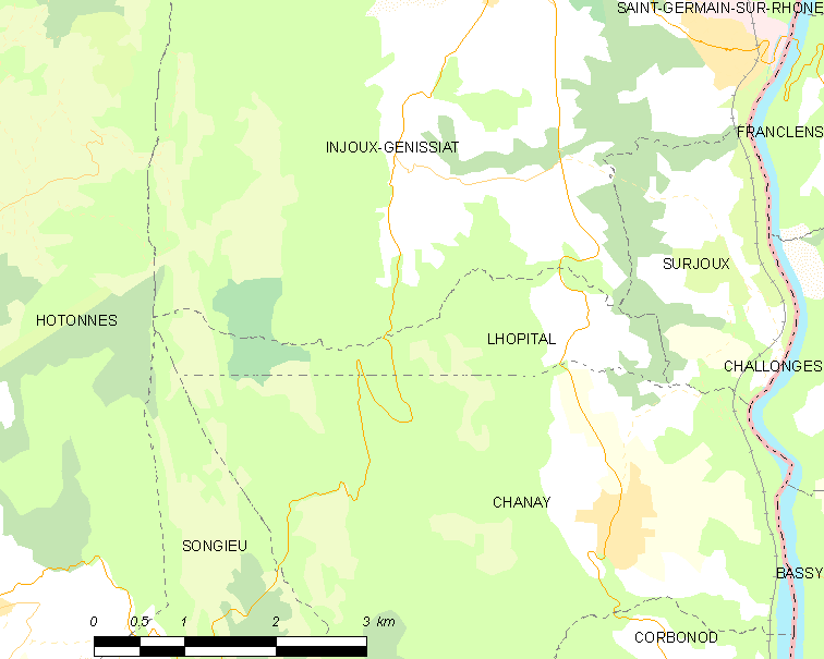 Map of French commune: Lhôpital Map commune FR insee code 01215.png